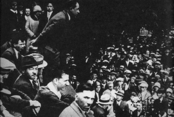 Rally of the Communist Party of Czechoslovakia. The people speak Antonín Zápotocký Česky: Manifestace Komunistické strany Československa. K lidem mluví Antonín Zápotocký